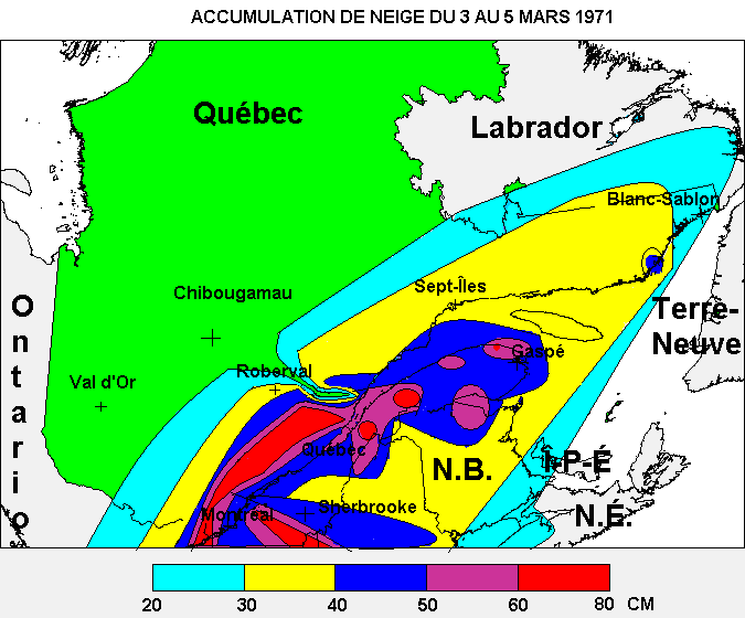 Snow accumulations with the Eastern Canadian Blizzard of March 1971